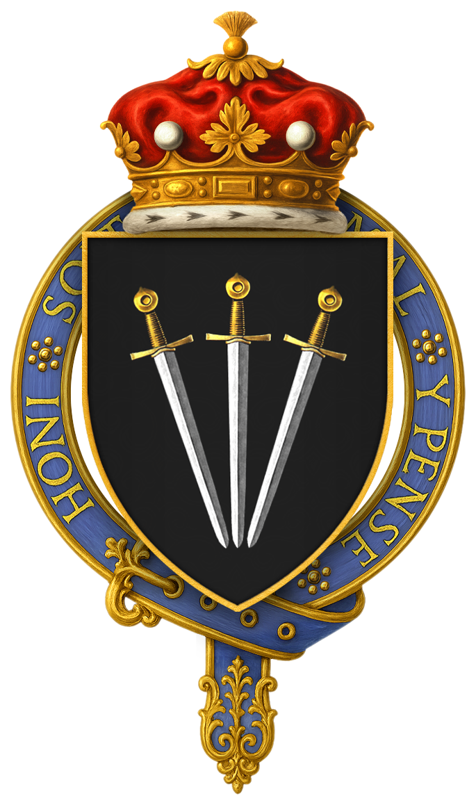 Coat of arms of Sir William Paulet, 1st Marquess of Winchester, KG